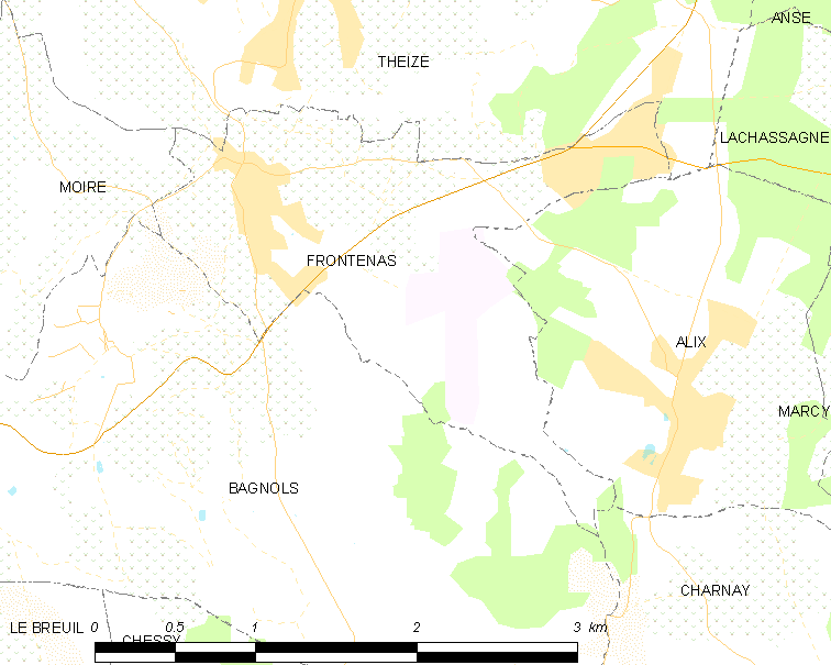 Map of French municipality